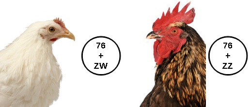 ZW type of sex determination in birds (as shown depending on chicken chromosomes). Resources